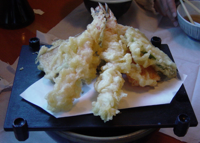 Tempura This picture depicts an order of tempura in a Japanese restaurant in the US. The dish has two shrimps in the top foreground and vegetables on the bottom. The picture was taken in Nov. 2004 using my own camera.